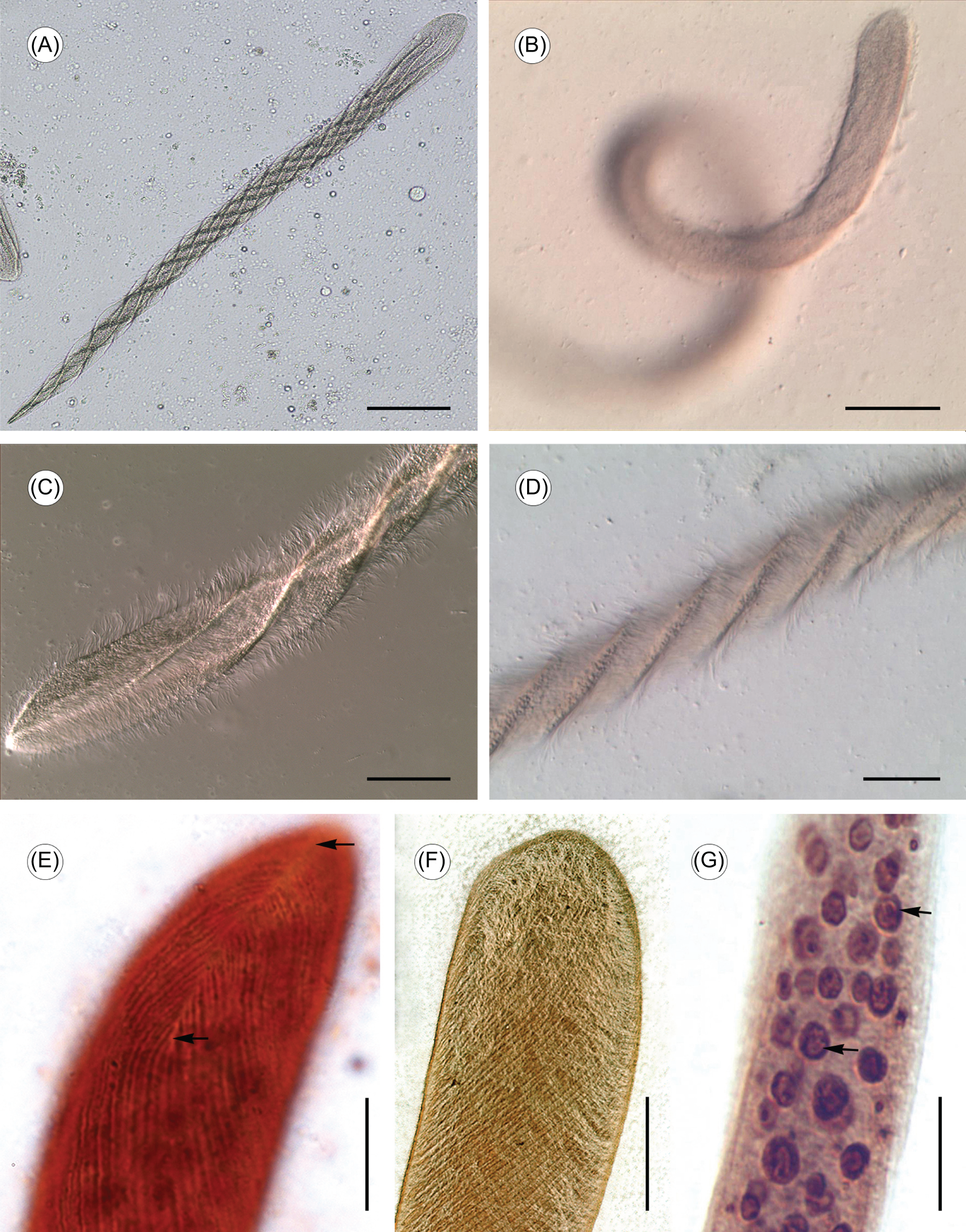 Figure 1 of paper Light microscope images of Cepedea longa. (A) Overview of the living specimens, to show general form, greatly elongated and cylindrical, with the anterior extremity broader and the posterior end pointed. Scale bar = 100 μm. (B) Living specimens, to show C. longa thickly flagellated and often coils when swimming. Scale bar = 100 μm. (C)–(D) Living specimens, to show body surface twisting and giving a spiral appearance. Scale bar = 50 μm. (E) Specimens stained with ammoniacal silver, to show the falx (arrow) and somatic kineties branching off from each side. Scale bar = 25 μm. (F) Specimens stained with silver nitrate, to show somatic kineties follow a sigmoid course from anterior to posterior end of the cell. Scale bar = 25 μm. (G) Specimens stained with ammoniacal silver, to show the organism possessing a large amount of spherical or ellipsoidal nuclei (arrow). Scale bar = 25 μm.